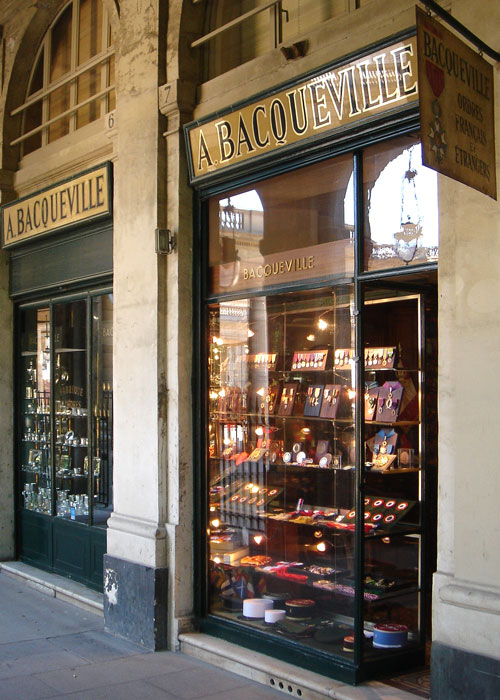 Bacqueville's store in the gardens of Palais Royal in Paris